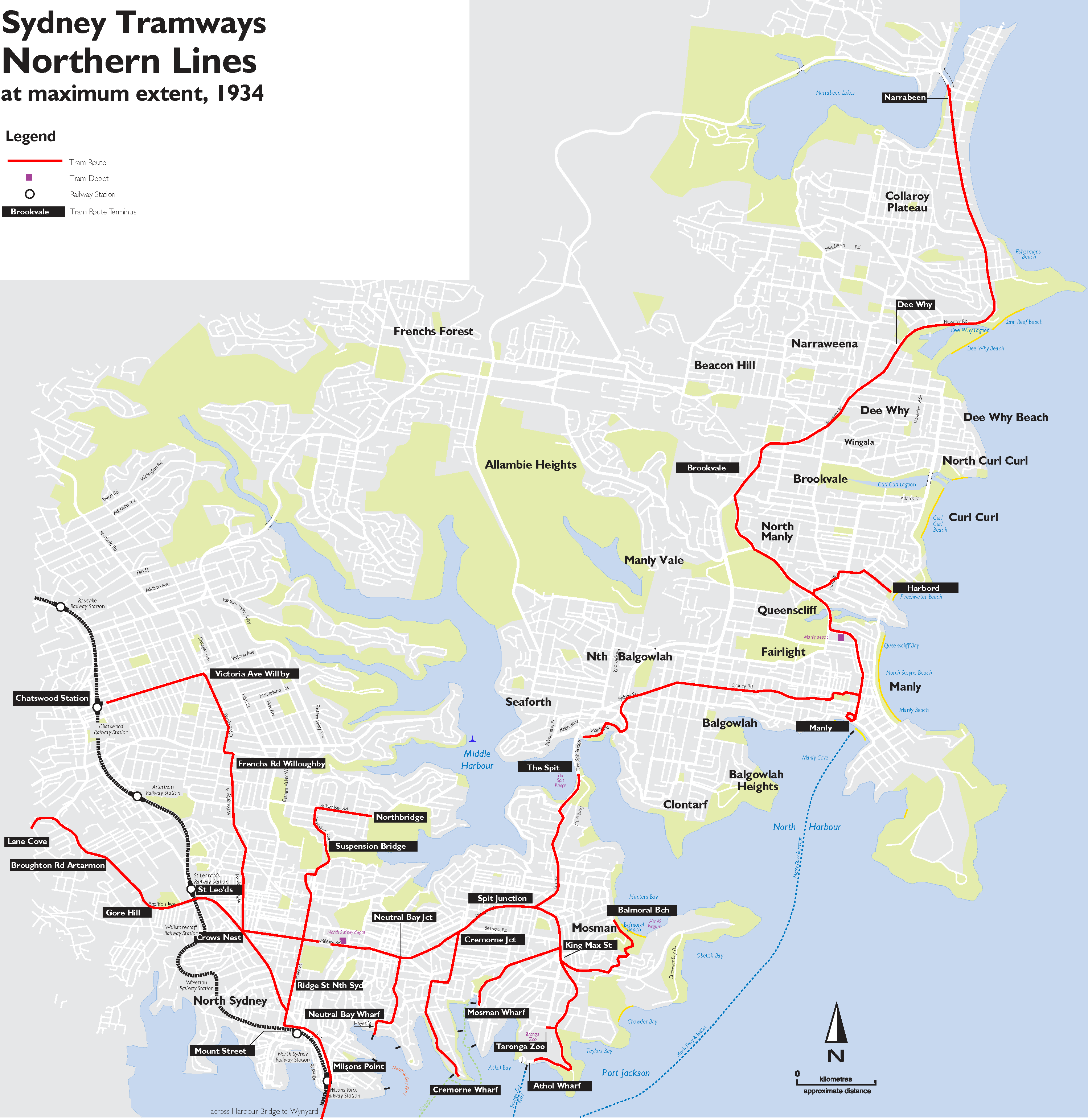 Map of the tramways of the northern suburbs of Sydney at maximum extent, 1934